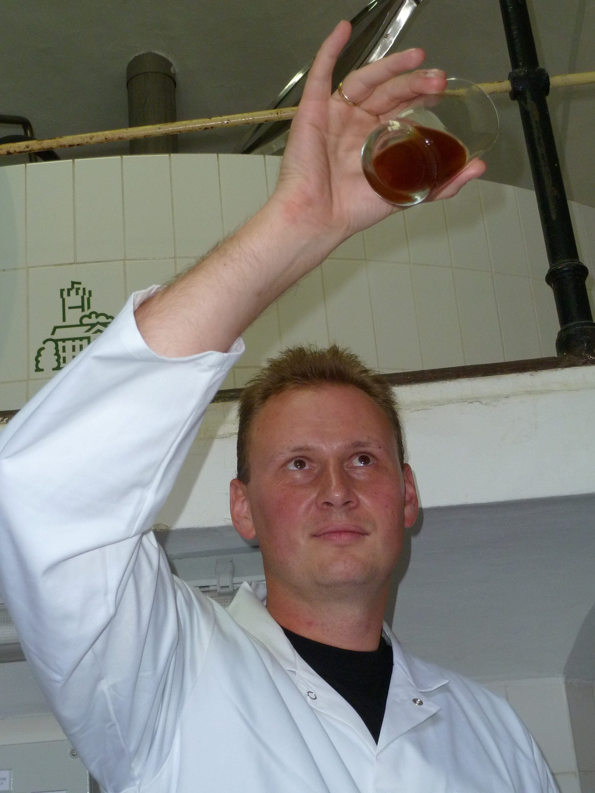 FestiwalBirofilia2